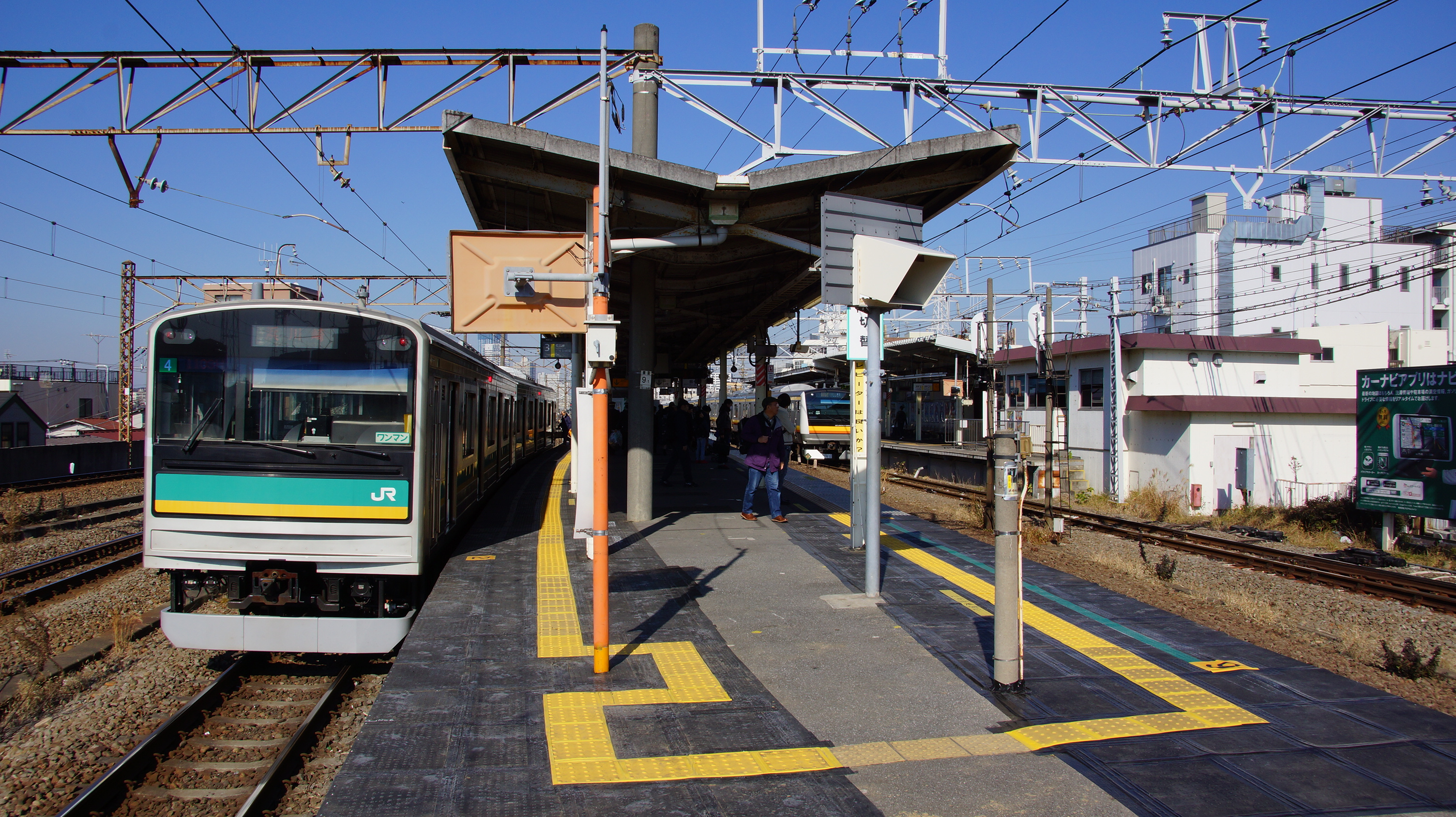 The south end of platform 2/3 at Shitte Station on the Nambu Line in Kanagawa Prefecture, Japan, with a Nambu Branch Line 205-1000 series EMU at platform 3 on the left